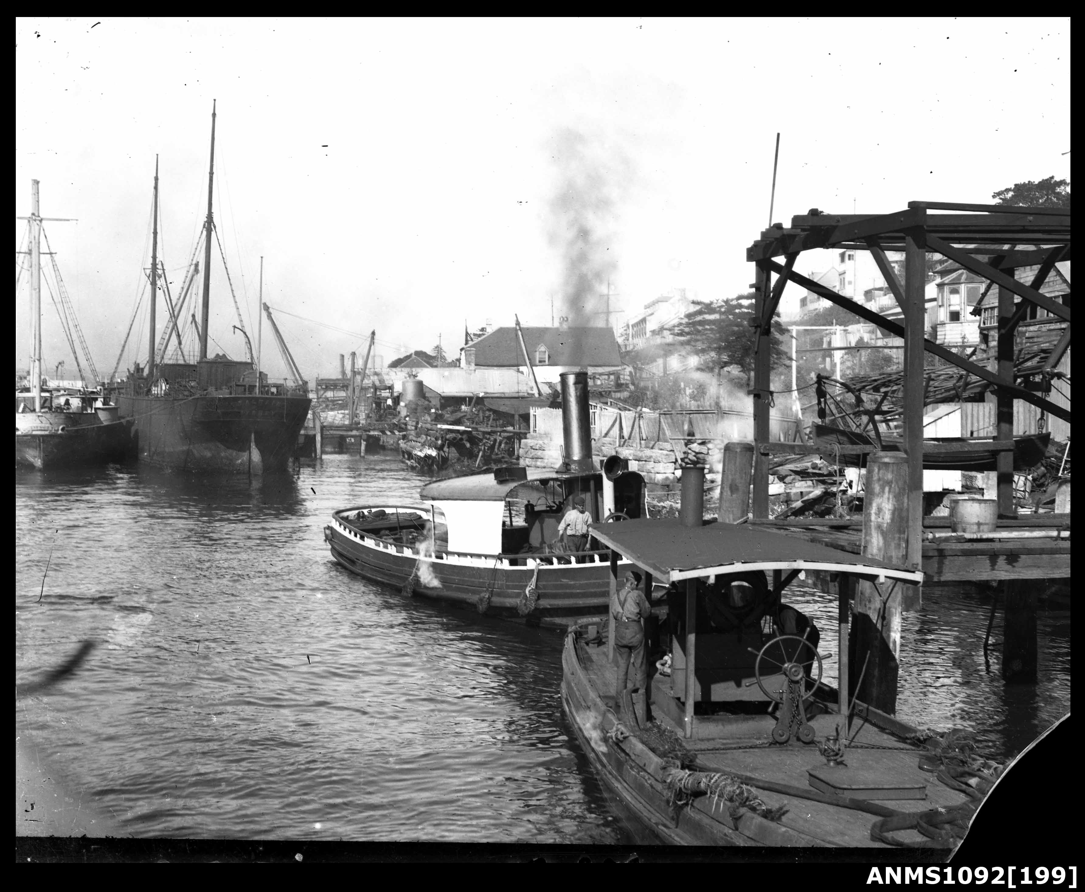 This photo is part of the Australian National Maritime Museum’s William Hall collection. The Hall collection combines photographs from both William J Hall and his father William Frederick Hall. The images provide an important pictorial record of recreational boating in Sydney Harbour, from the 1890s to the 1930s – from large racing and cruising yachts, to the many and varied skiffs jostling on the harbour, to the new phenomenon of motor boating in the early twentieth century. The collection also includes studio portraits and images of the many spectators and crowds who followed the sailing races. The Australian National Maritime Museum undertakes research and accepts public comments that enhance the information we hold about images in our collection. If you can identify a person, vessel or landmark, write the details in the Comments box below. Thank you for helping caption this important historical image. Object number: ANMS1092[199]